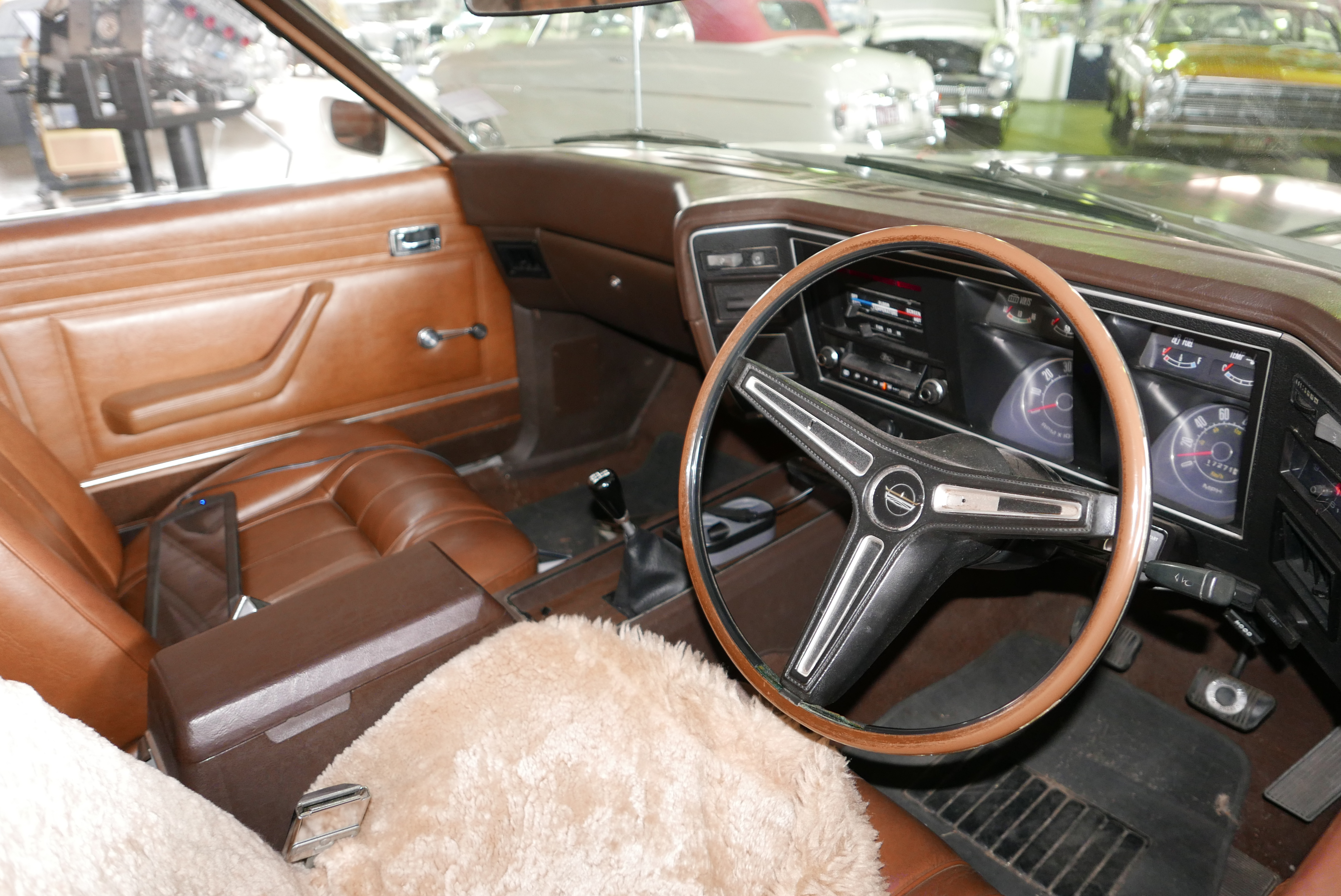 1971 Ford Falcon (XB) GT sedan. Photographed at the Geelong Museum of Motoring and Industry, North Geelong, Victoria, Australia.